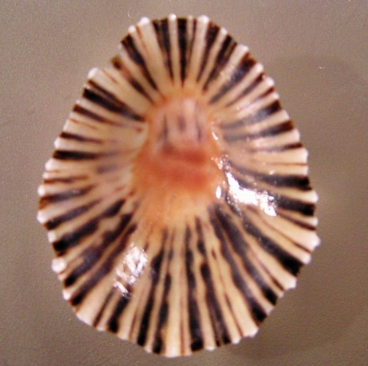 Helcion concolor (Krauss, 1848) (synonym: Patella variabilis polygramma Tomlin, 1931), a limpet from the family Patellidae; South Africa